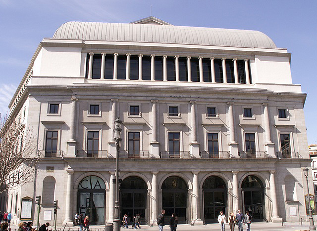 East façade of Teatro Real (Madrid, Spain). Opera house. Original project by architect Antonio López Aguado (1764–1831) built between 1818 and 1850. Alterations: 1926-1932; 1941-1961; 1965-1966; and 1993-1995.